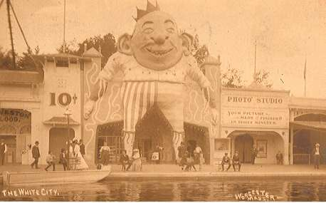 "White City", Massachusetts. photo postcard -- fashions etc. indicate this is unlikely to be post-1923